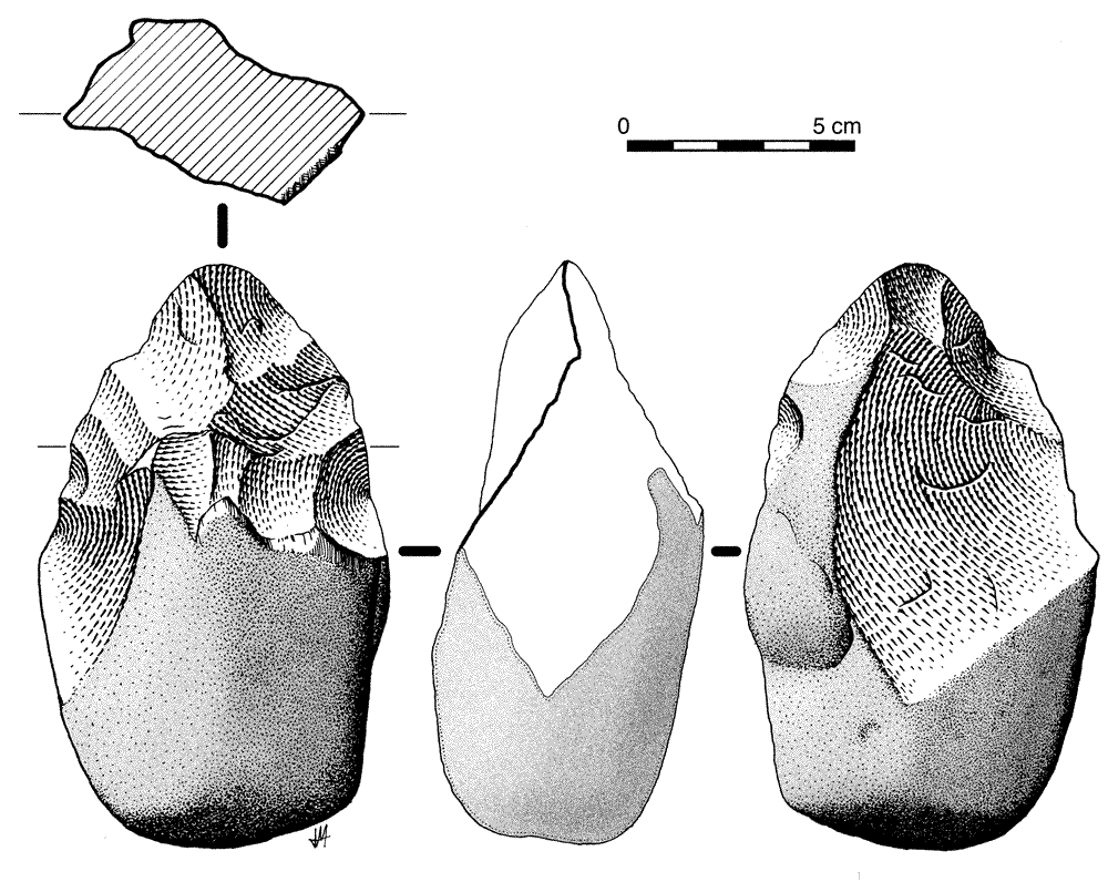 Acheulean partial hand axe that proceeds from a superficial site in the Salamanca province (Spain), in the valley Águeda river, tributary of Douro river.